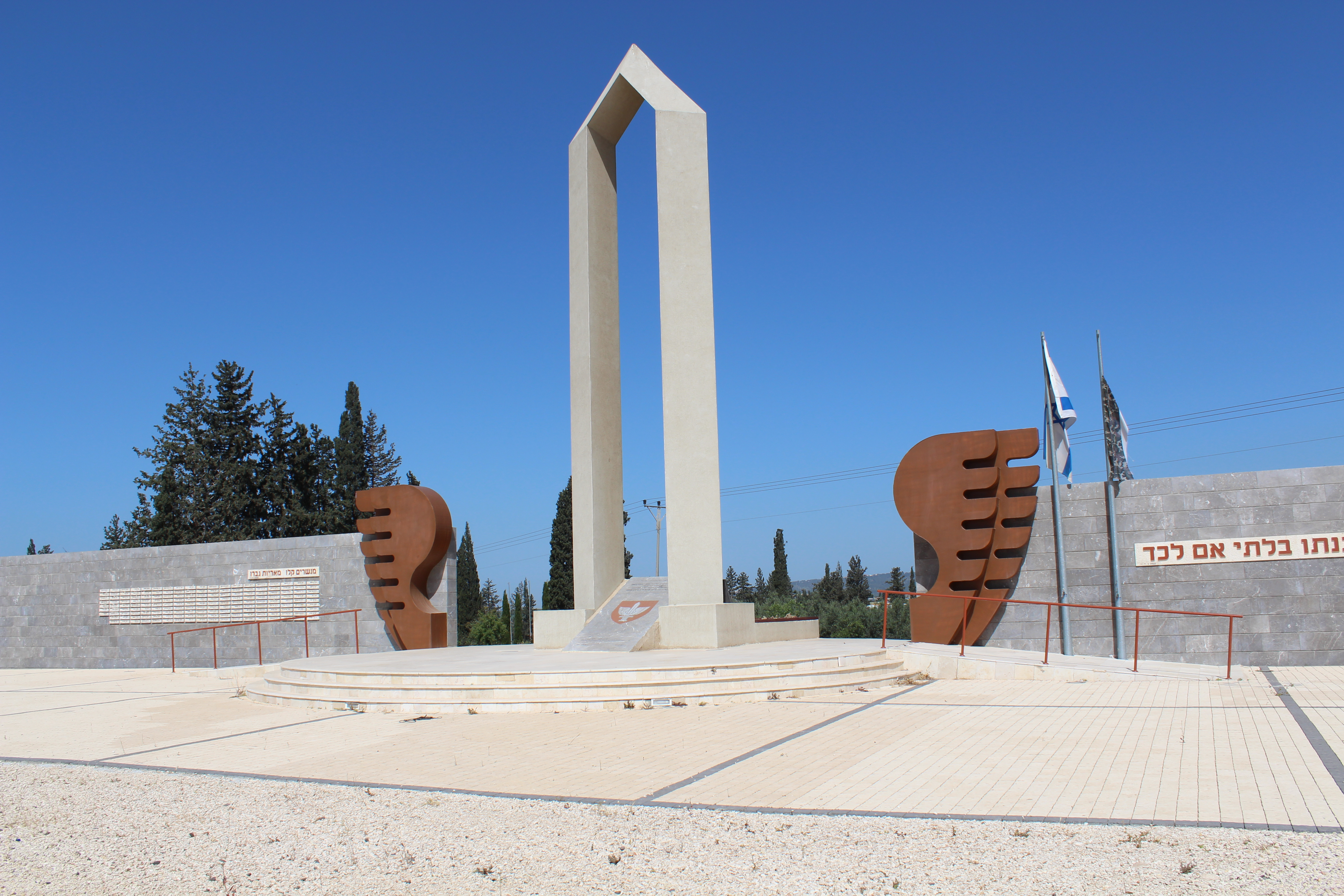 Kfir Brigade Monument, Afula, Israel This image was taken as part of the Elef Millim project trip to Afula Ilit, in the town of Afula in the Jezreel Valley, which was held on Friday, 29th March 2013. To view all images uploaded as part of the Elef Millim Project